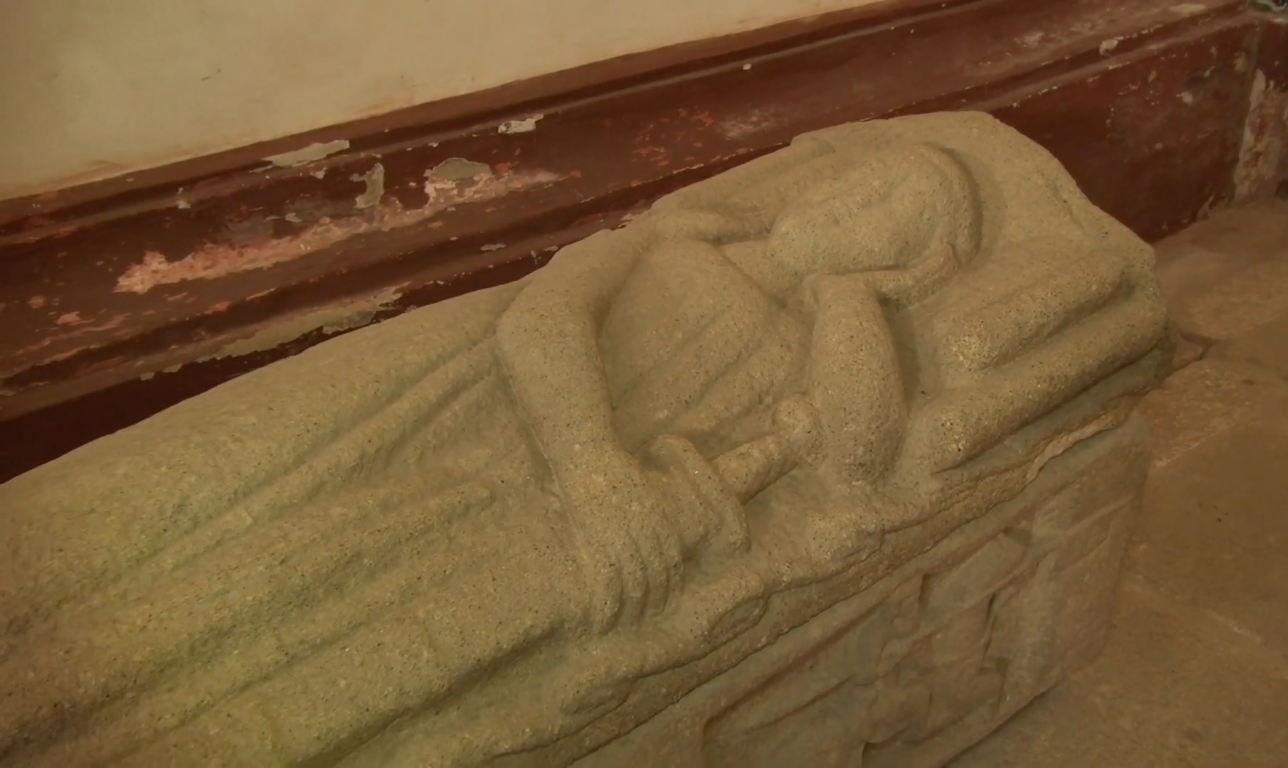 Tomb with recumbent effigy of João Afonso de Albuquerque, 1st Count of Barcelos (d. 1304), in the Monastery of Pombeiro, Felgueiras, Portugal